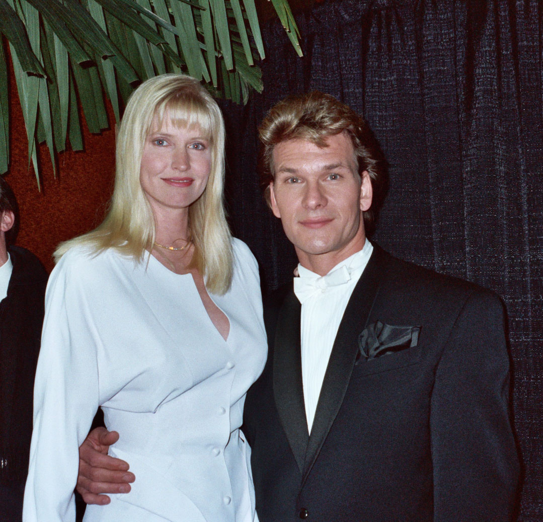 Grammy Awards - Patrick Swayze and wife Lisa Niemi back stage during the telecast - February, 1990 - Permission granted to copy, publish or post but please credit "photo by Alan Light" if you can